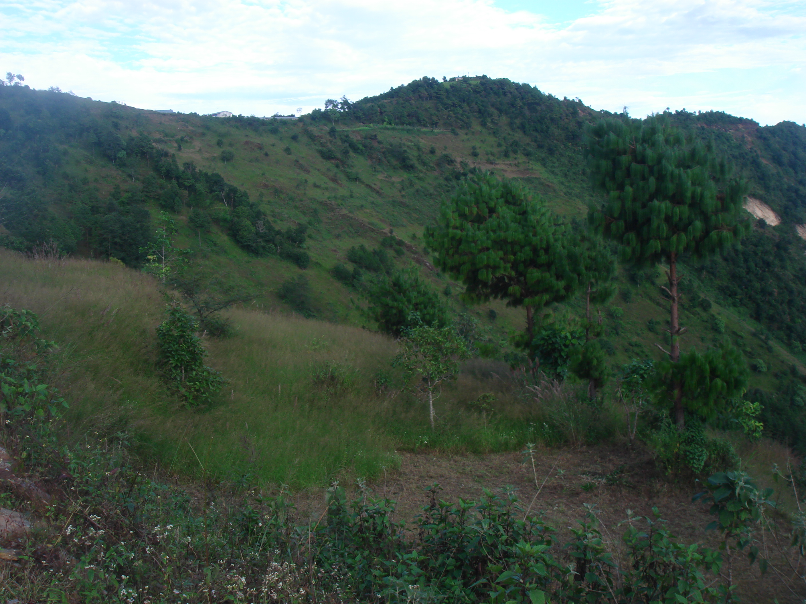 A view of Okaldhunga